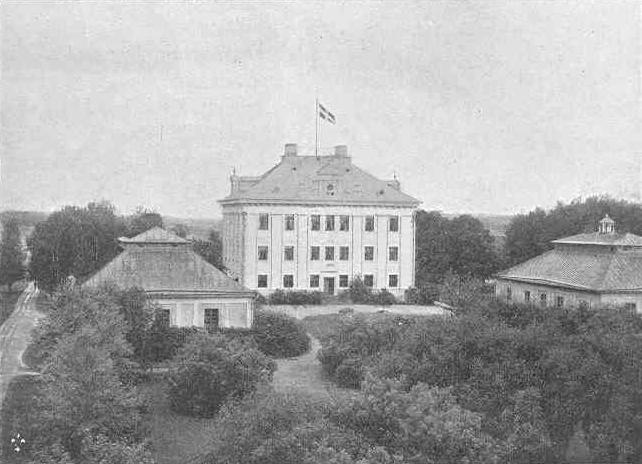 The mansion of Stor-Sarvlax in Pernå.